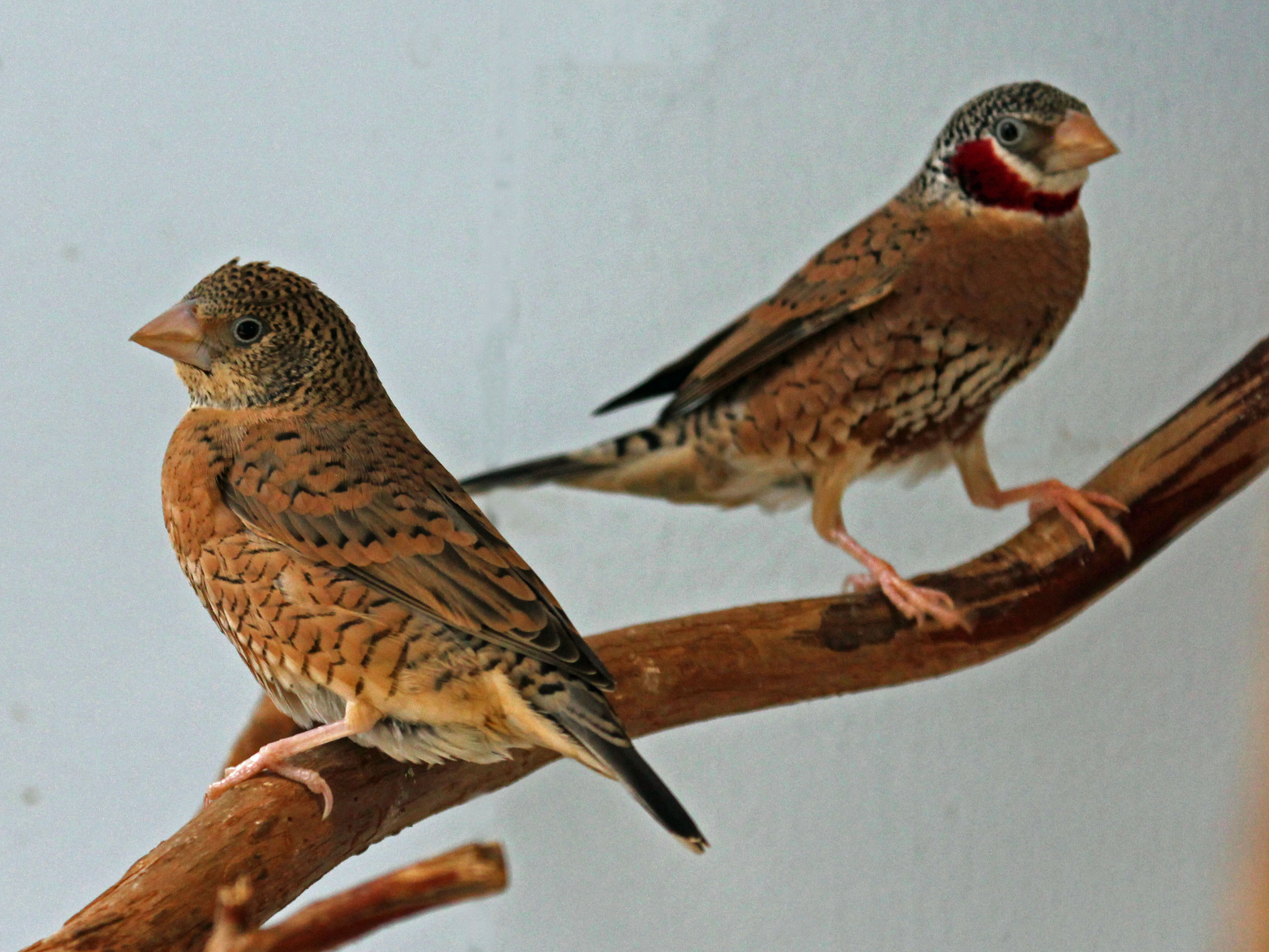 Cut-throat Finch (Amadina fasciata) - National Aviary in Pittsburgh, Pennsylvania. Female on the left, male on the right.